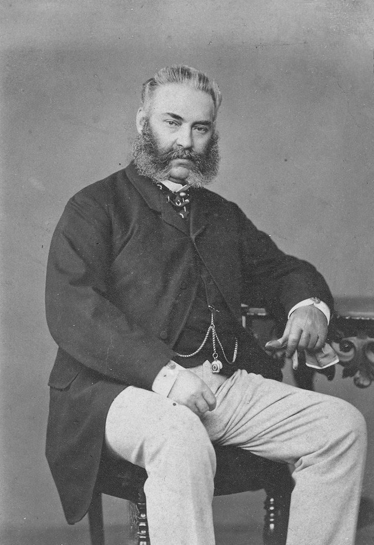 Alexander Vladimirovich Adlerberg